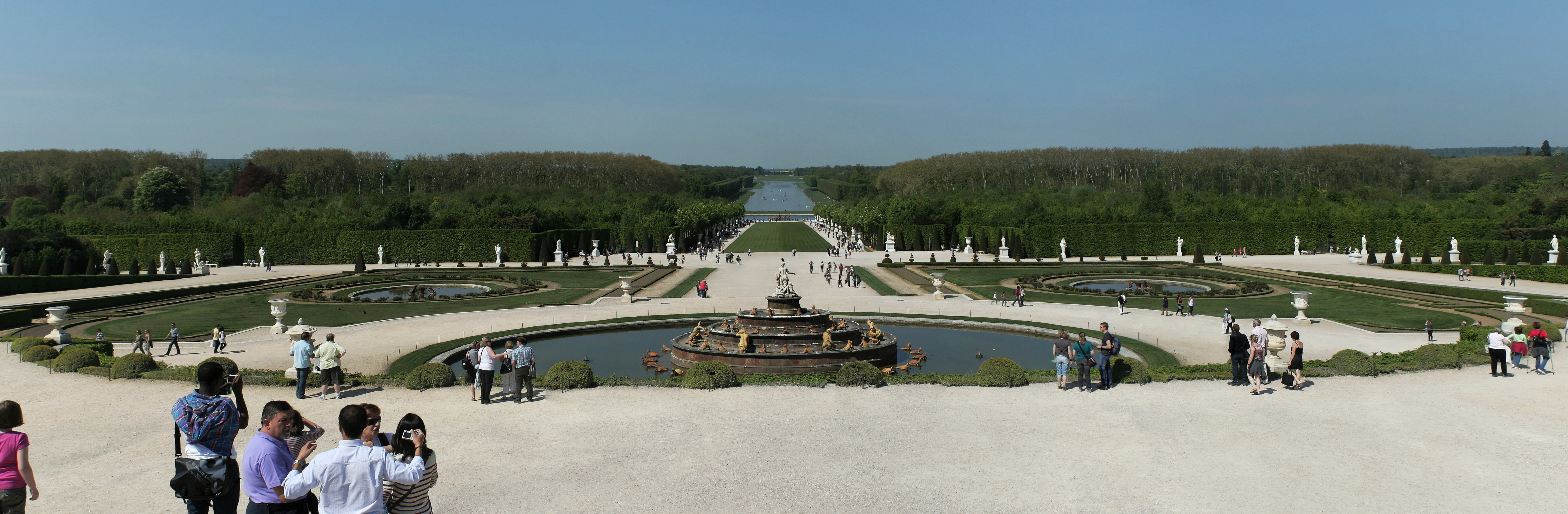 Gardens of Versailles, broad view on the Latona fields.